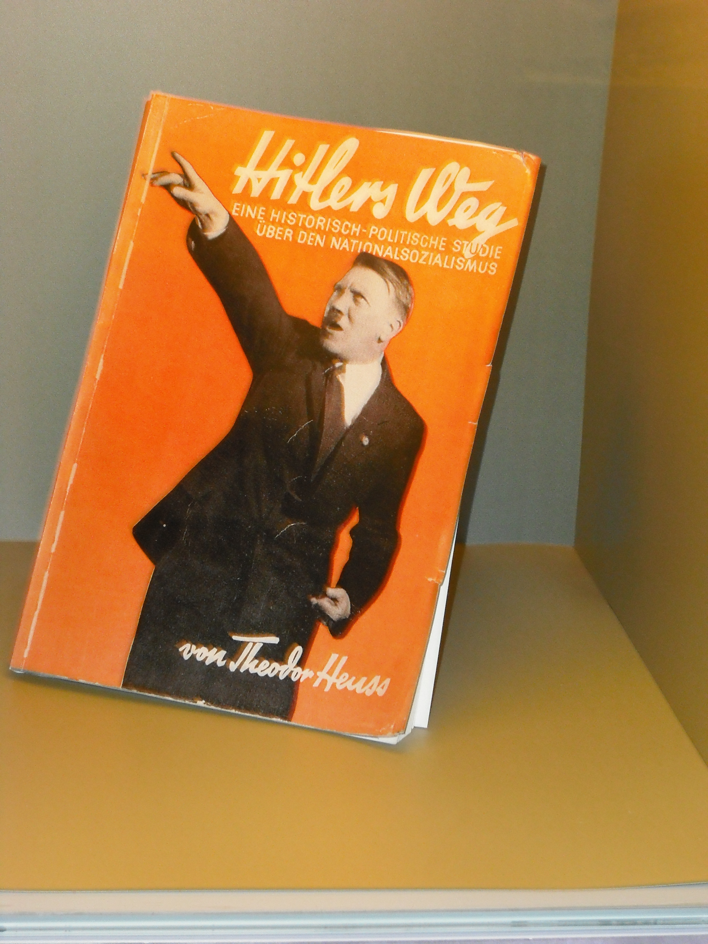 Book "Hitlers Weg" from Theodor Heuss, exhibit of the Theodor Heuss Museum